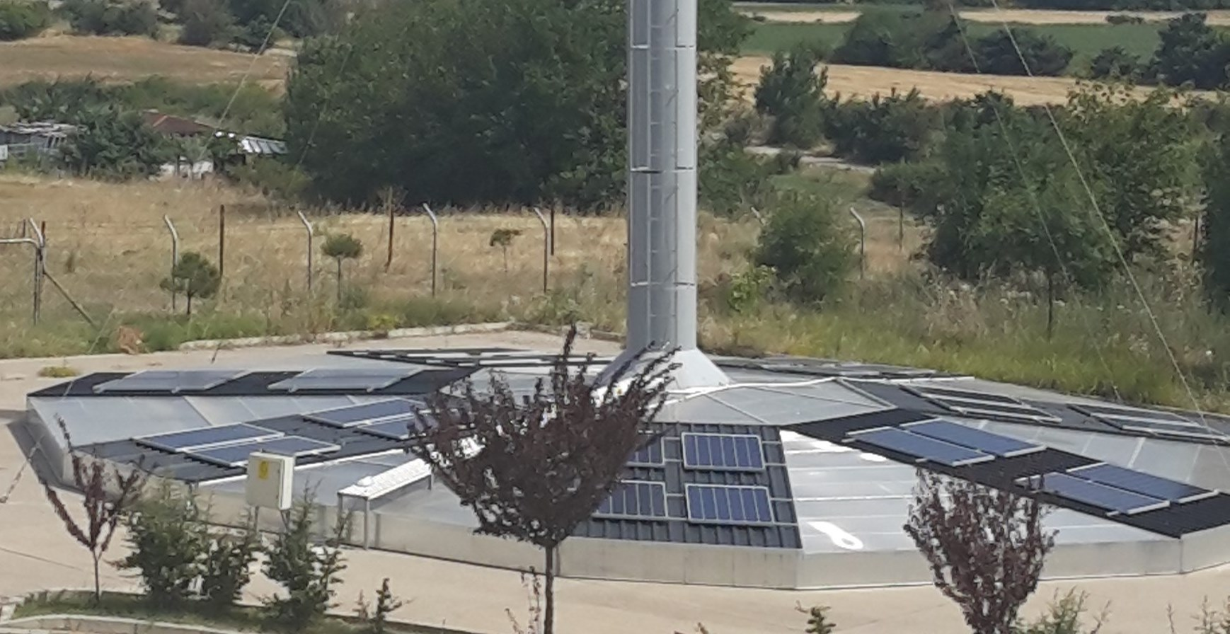 Solar towers can incorporate PV modules for additional daytime energy and the heat from PV array is utilized in the solar tower